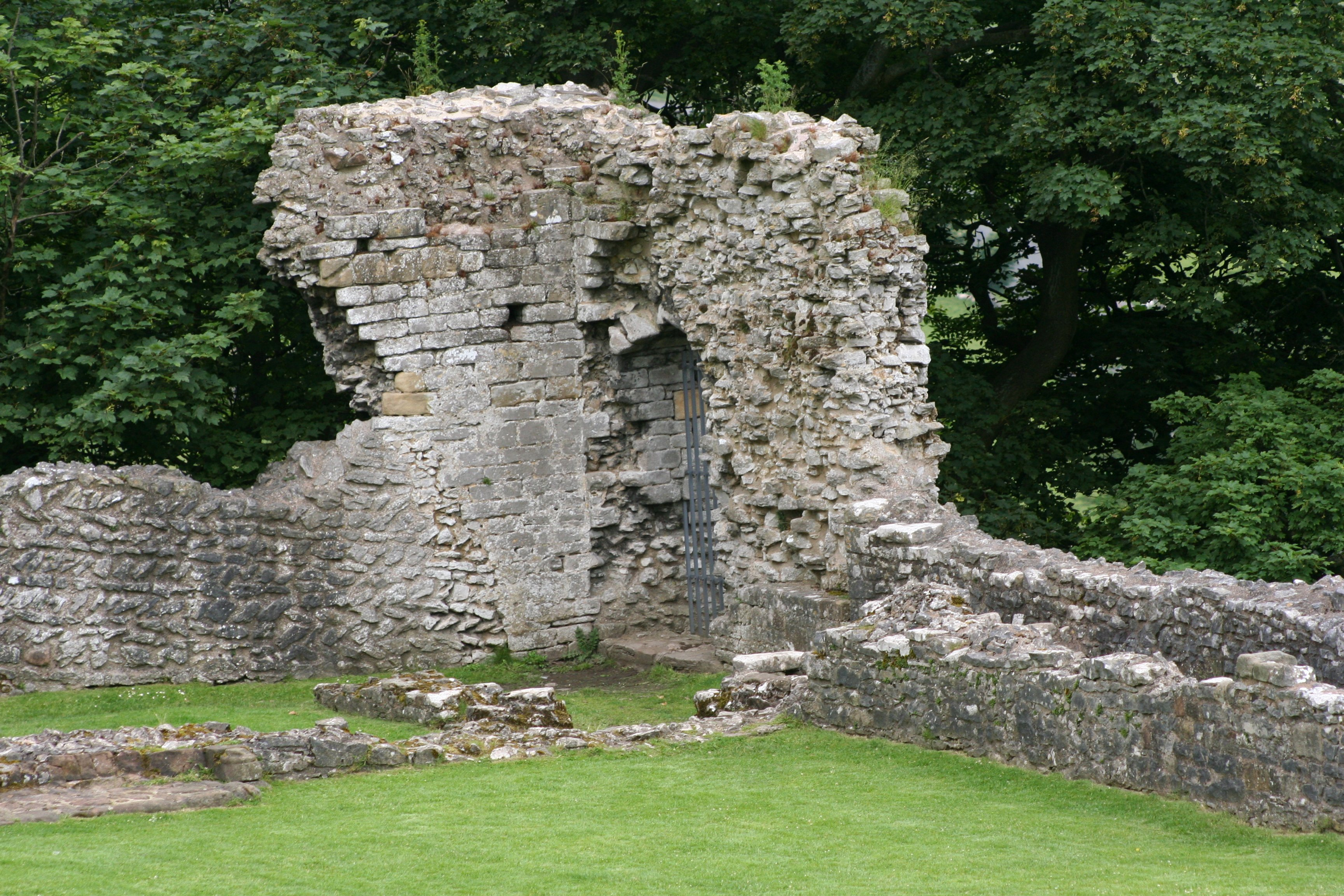 Northwest corner of Peveril Castle, with remains of the walls of the "New Hall" (built in the 13th century).